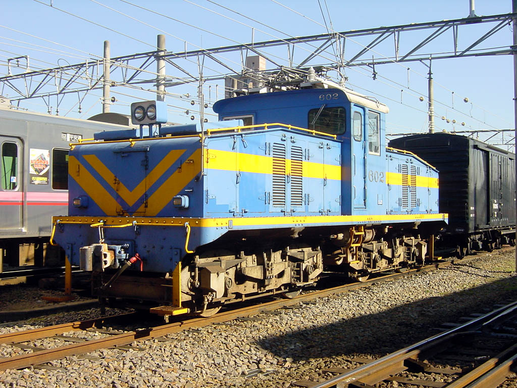 Meitetsu Class DeKi 600 electric locomotive DeKi 602 at Inuyama Depot